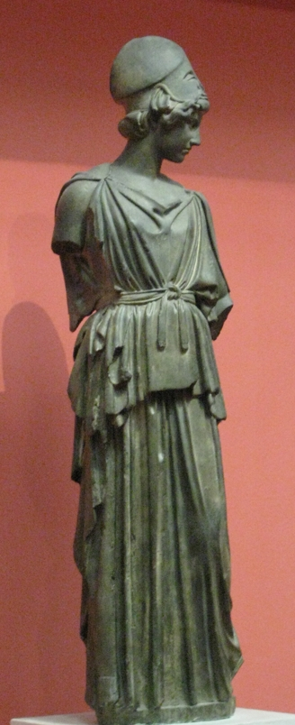 Athena and Marsyas by Myron. Cast in Pushkin Museum, Moscow